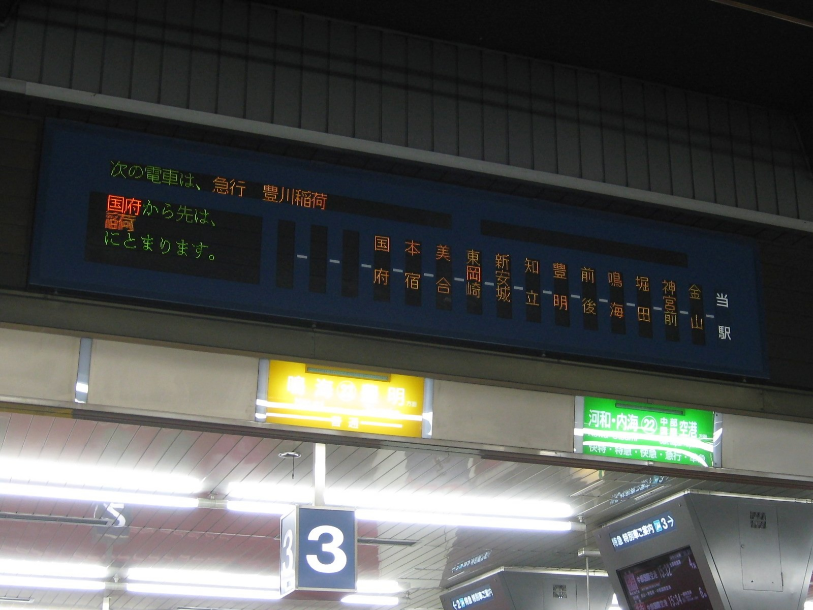 Meitetsu Nagoya Station Three-color LED Departure Information Sign